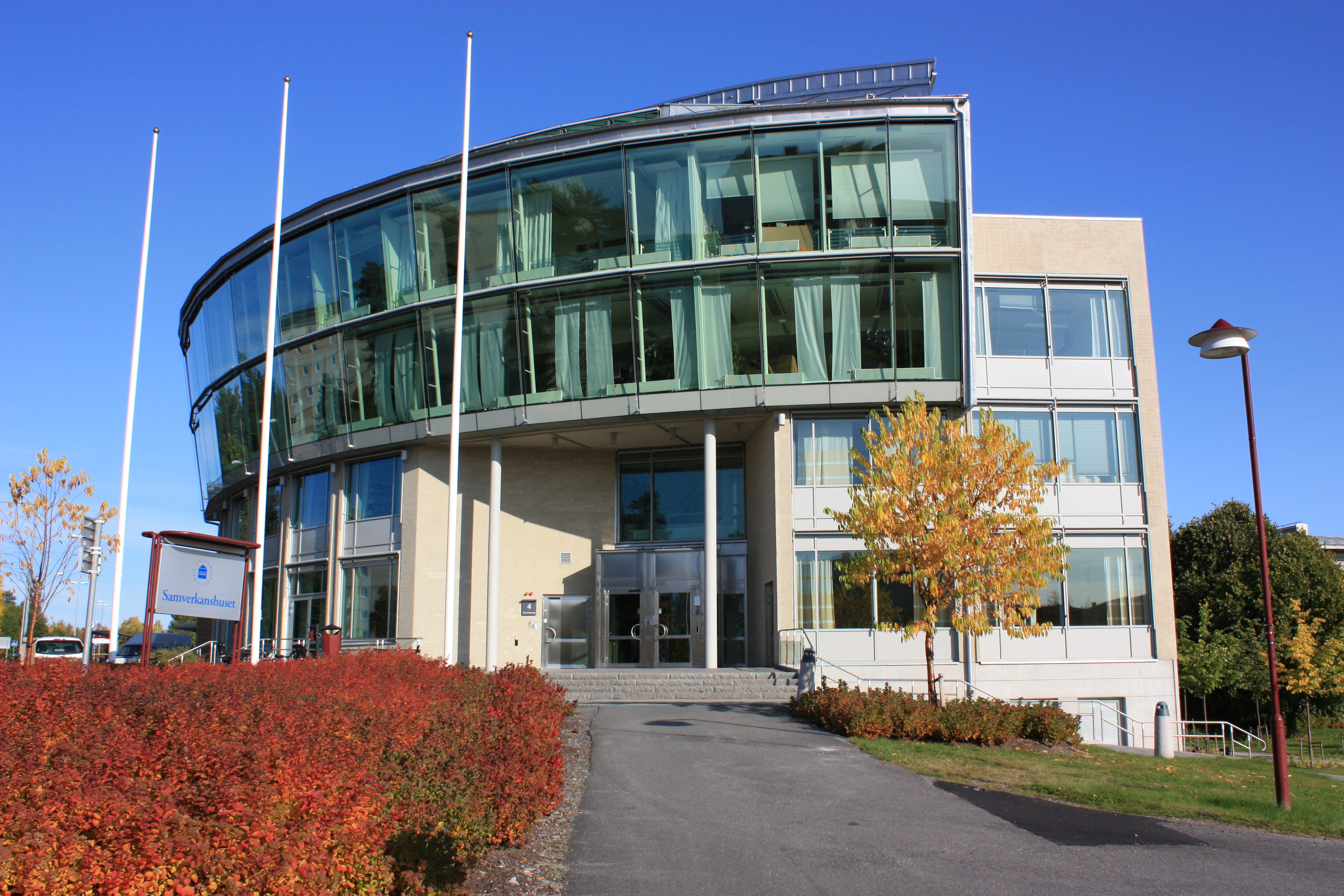 The University Liaison Building (Samverkanshuset) is home to the university management, the Office for External Relations, and the Office for Communication and International Relations.